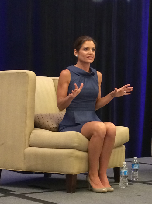 Author and speaker Glennon Doyle Melton presenting at the 2015 Annual Conference of Mental Health America in Alexandria, VA.